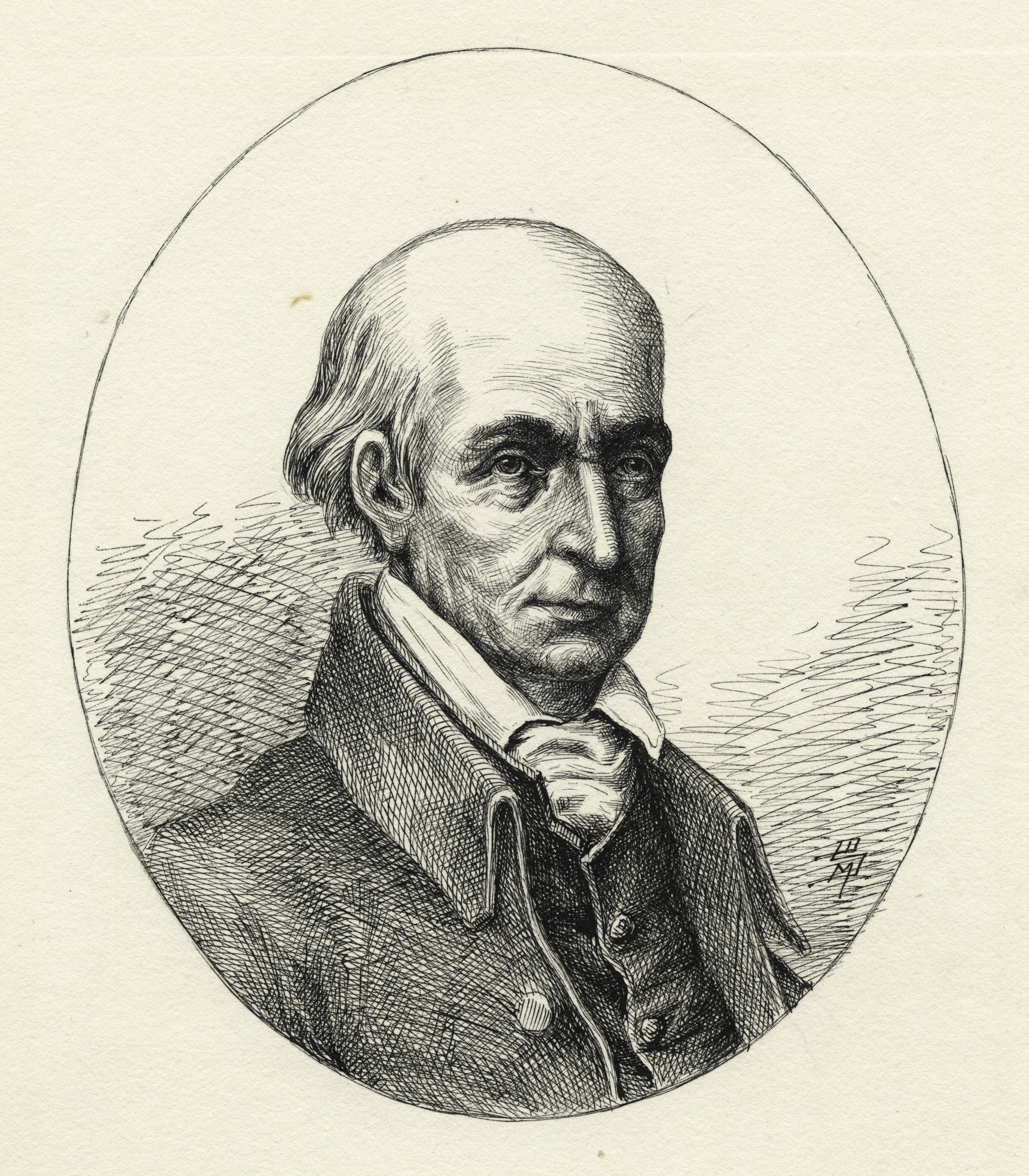 Portrait of George Thatcher, American judge and congressman